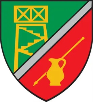 Coat of arms of Brand-Laaben, Lower Austria